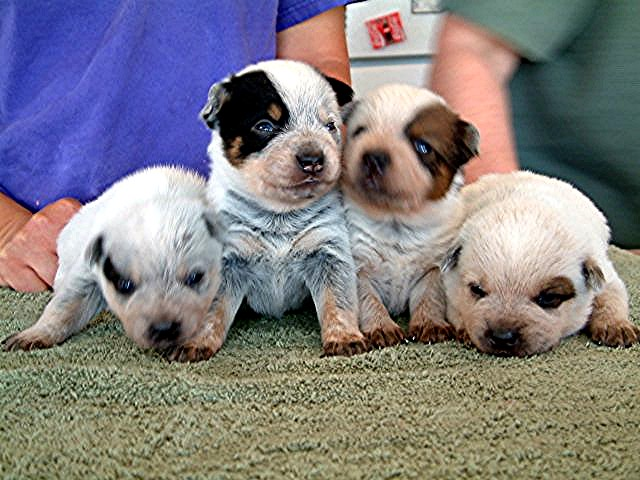 Three week old Australian Cattle Dog puppies, just starting to show their coloring.